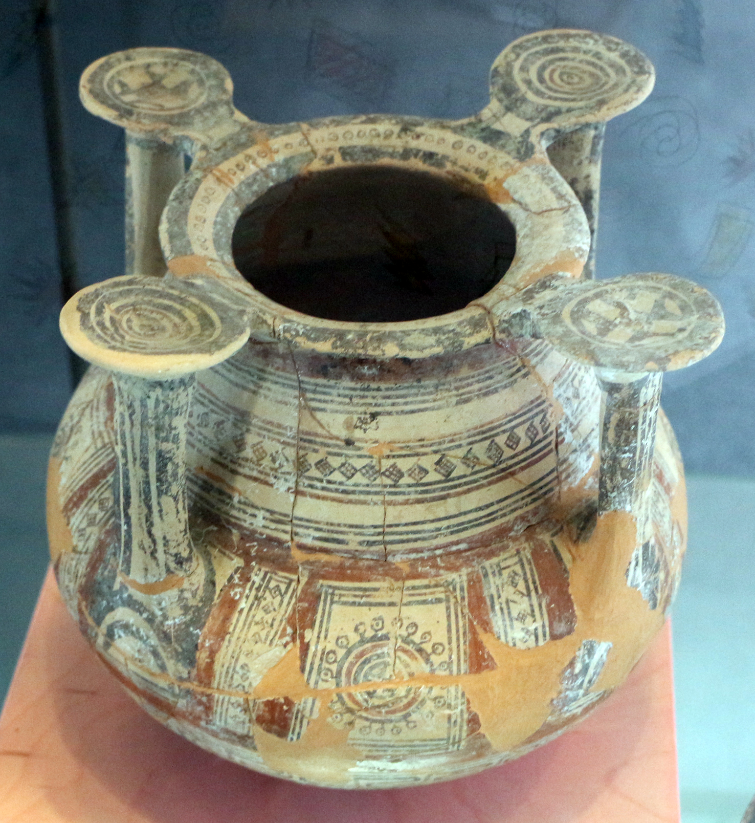 Apulian pottery in the Museo provinciale Sigismondo Castromediano